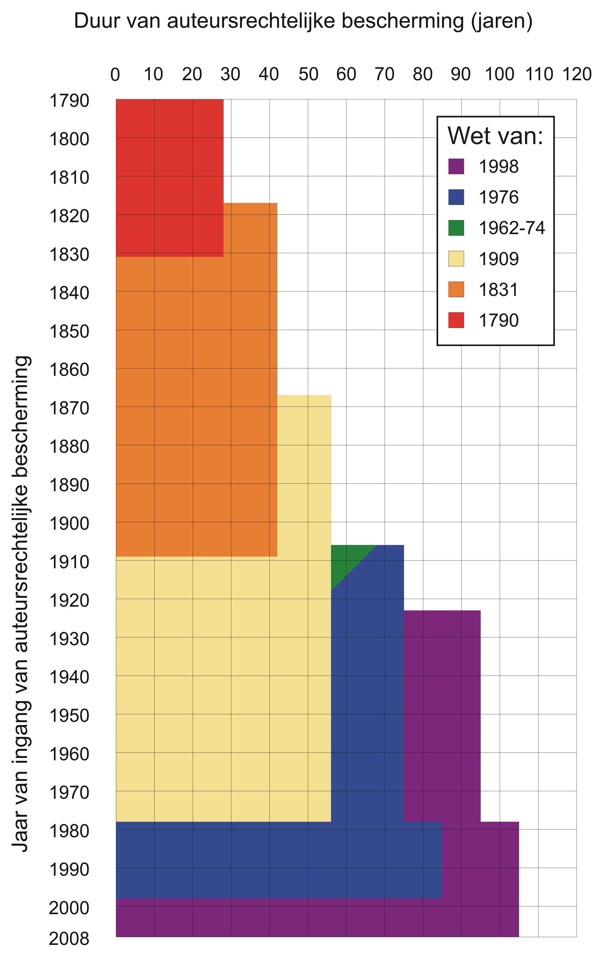 Rotation and translation of Vectorization of Tom Bell's graph, which shows expansion of U.S. copyright law. See fuller description at the original website